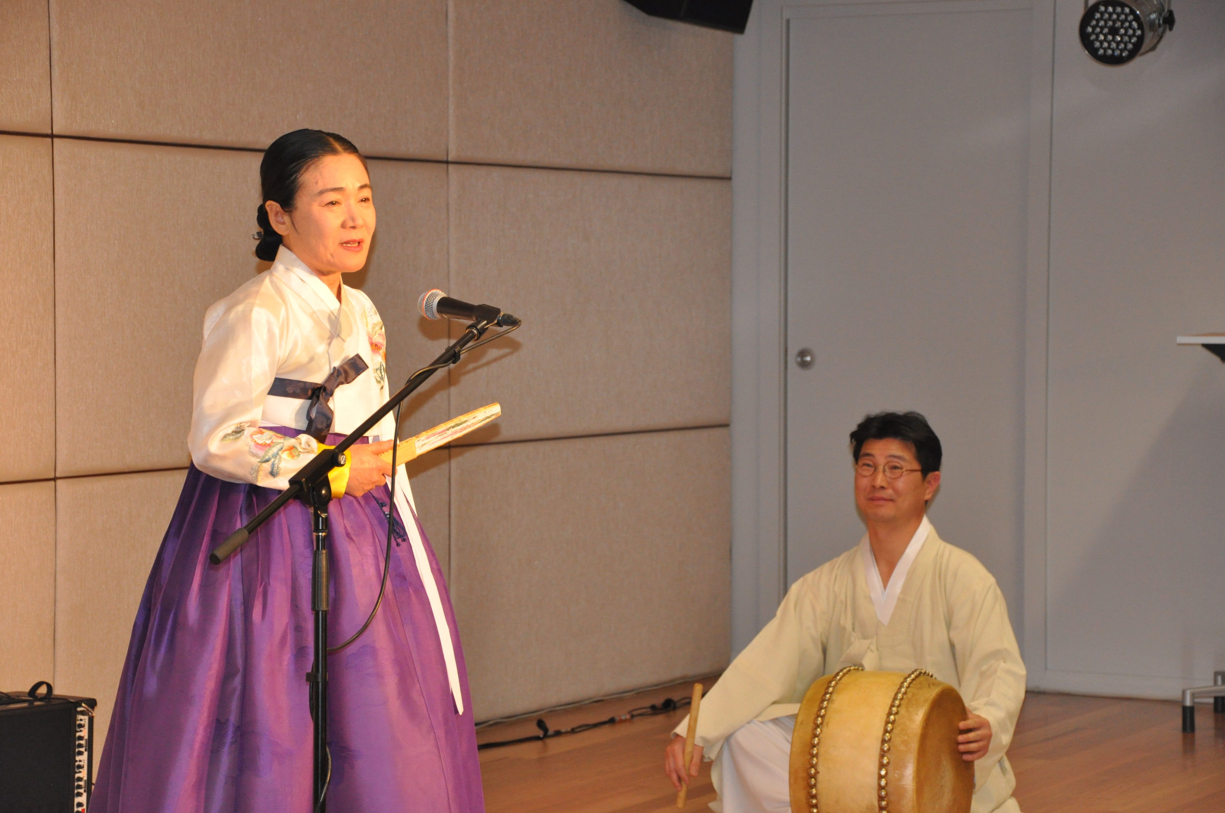 A new Korean Cultural Center opened on April 4 in Sydney to mark the 50 anniversary of the establishment of diplomatic relationship between Korea and Australia.